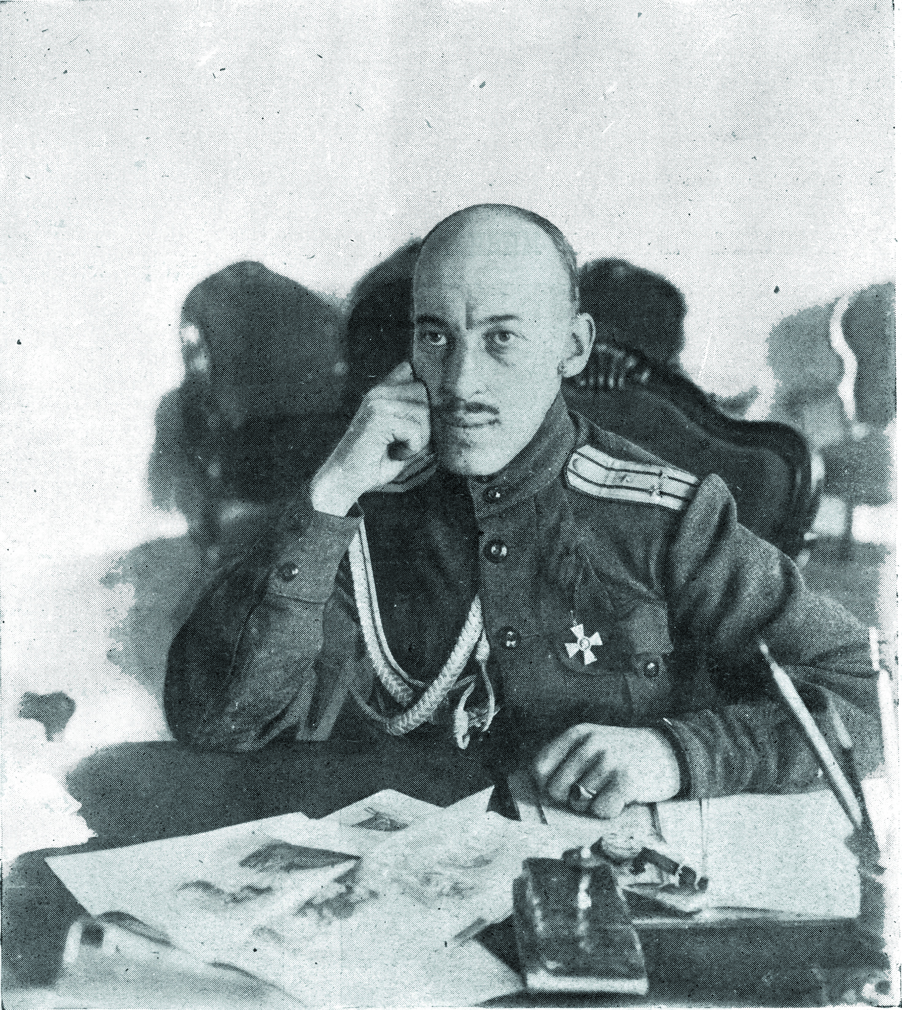 Photo of Georgy Petrovich Polkovnikov, Russian colonel, commander of the Petrograd Military District